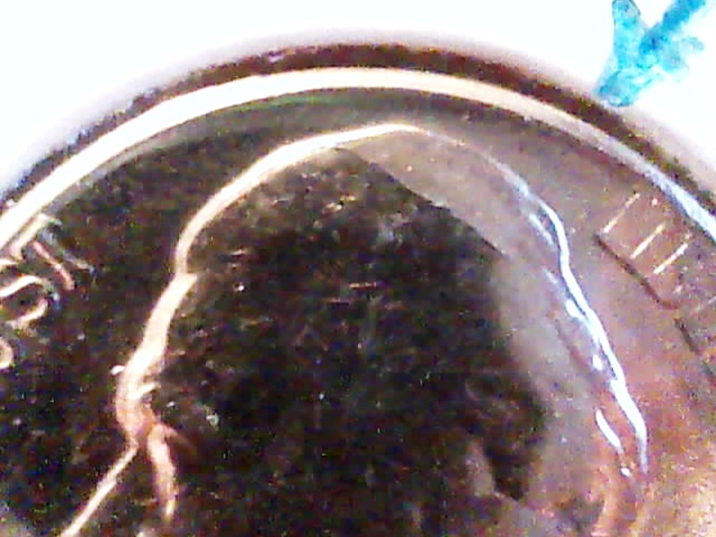 1954-S Jefferson Nickel Die Crack